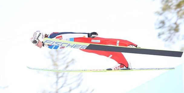 Bjoern Einar Romoeren during team competition of FIS Ski-Flying World Championships 2012